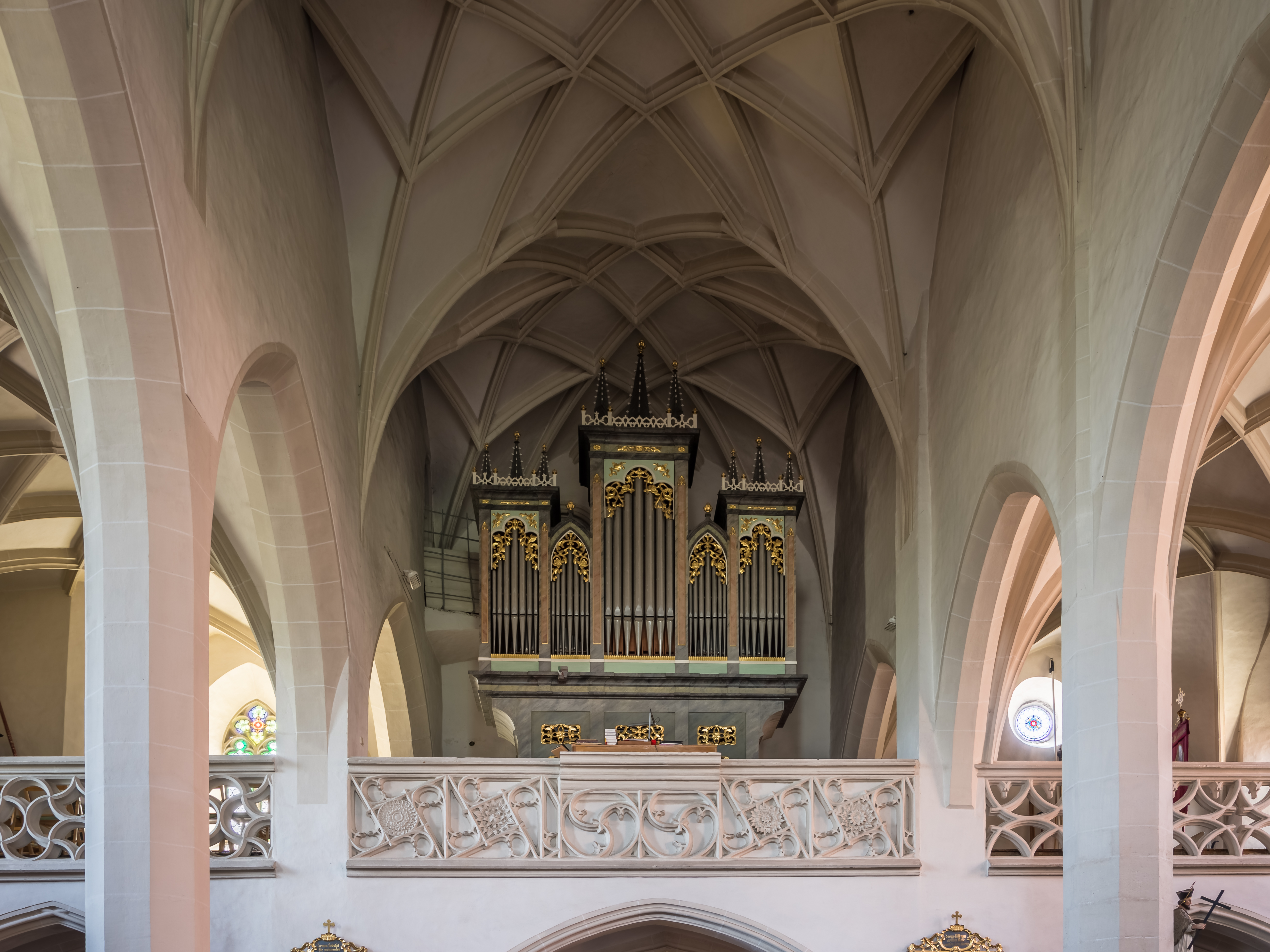 Organ of the parish- and pilgrimage church Maria Laach am Jauerling, Lower Austria